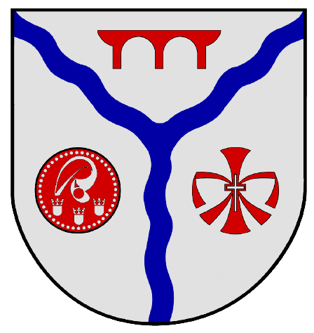 Coat of arms of Minden)